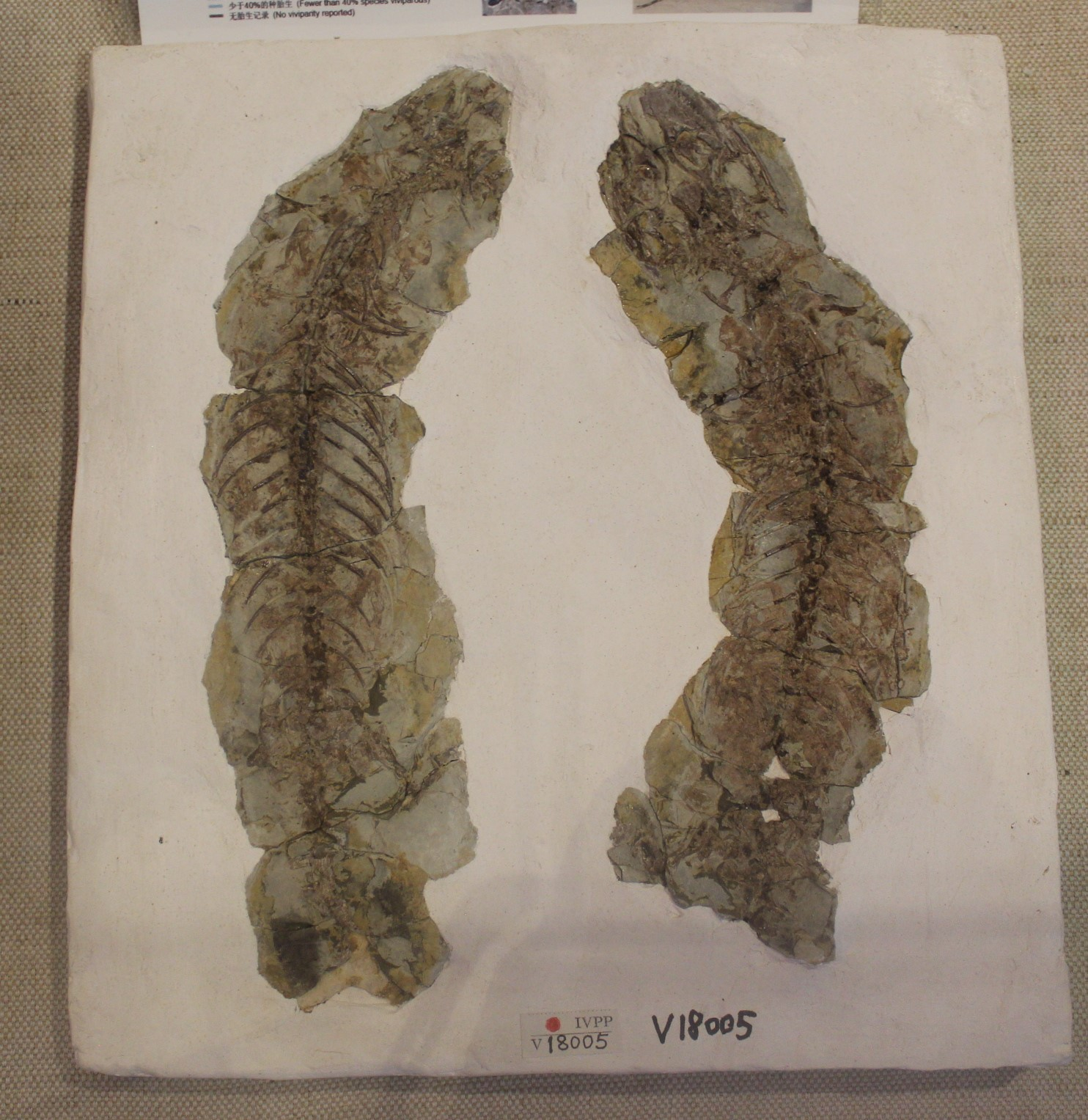 A specimen of Yabeinosaurus tenuis (IVPP V18005) with over fifteen embryos inside it on display at the Paleozoological Museum of China.